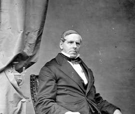 William Moore, US Representative from New Jersey